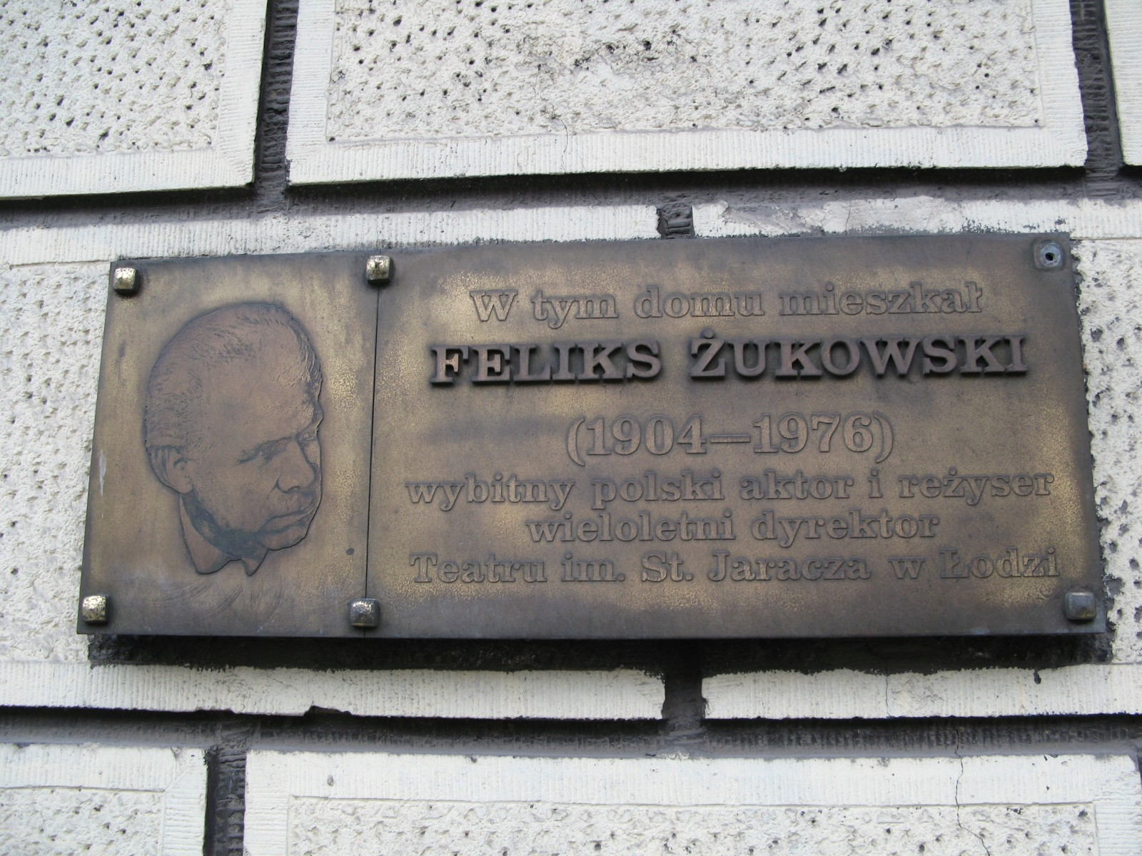 Plate dedicated to actor Feliks Żukowski, Łódź, Sienkiewicza Street